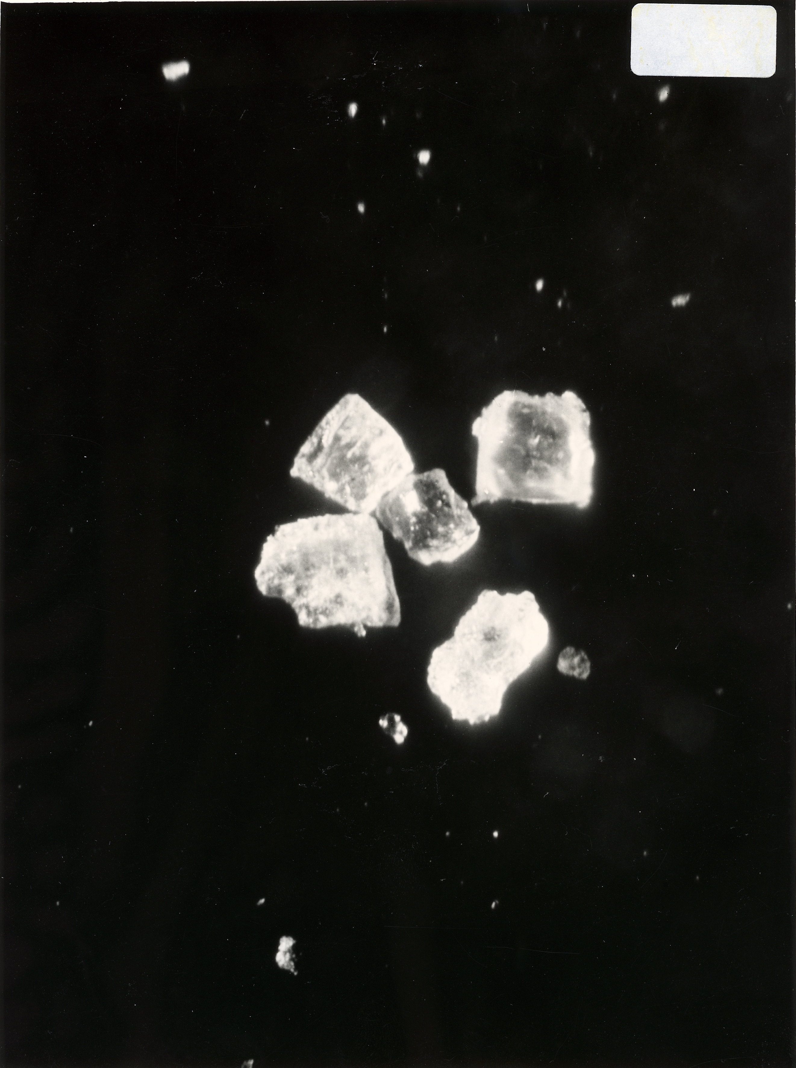 The first synthetic diamonds from the ASEA QUINTUS press in Stockholm 1953. The size of each crystal was about 0,1 mm.